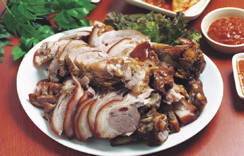 Jokbal is pigs’ feet cooked in a spiced soy sauce and often comes with saeujeot (pickled fermented shrimp).